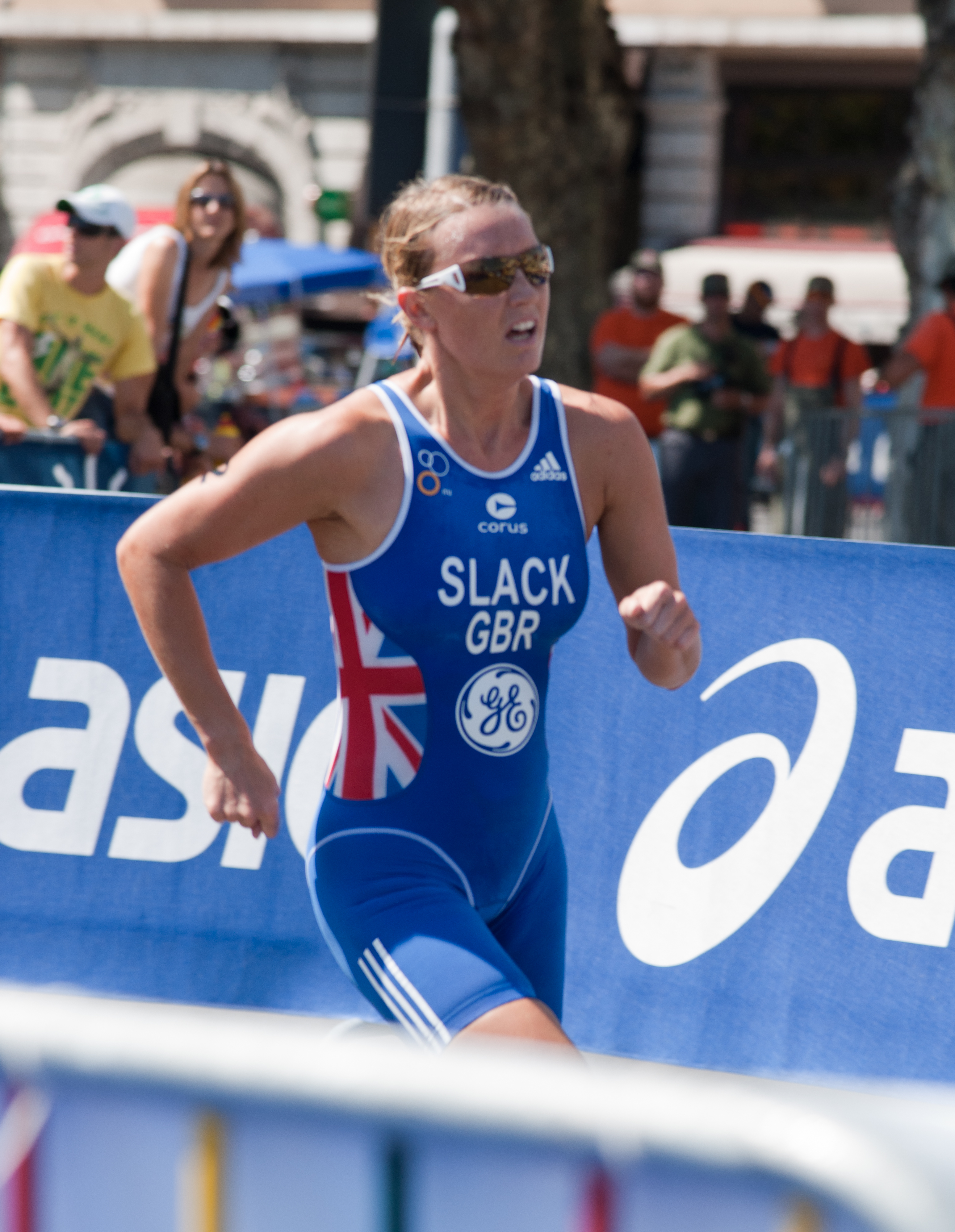 2010 ITU Sprint Distance Triathlon World Championships, Lausanne, Switzerland.